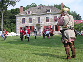 Old Fort Johnson. Image from 2003 Colonial Days event.